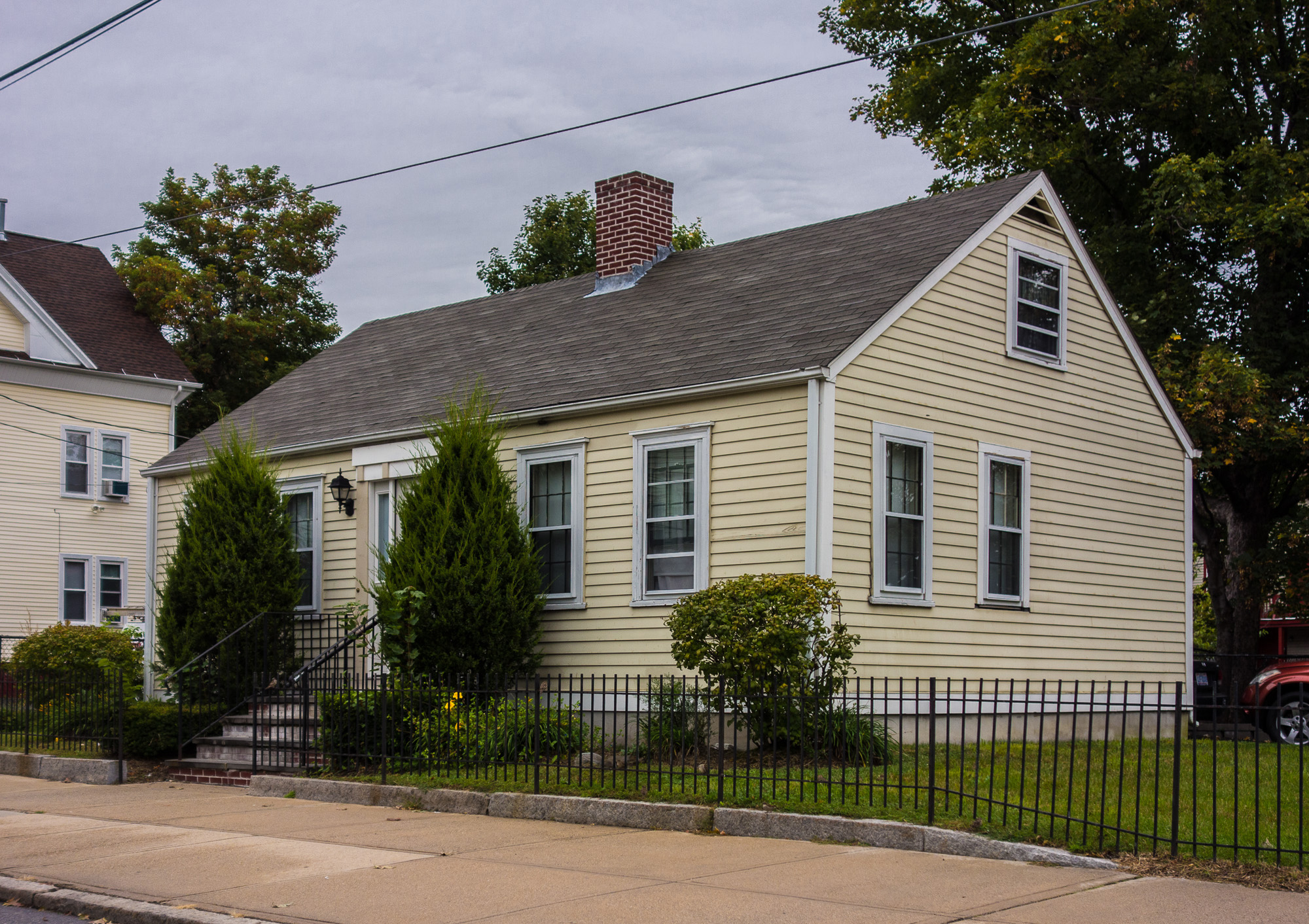 David Sprague House